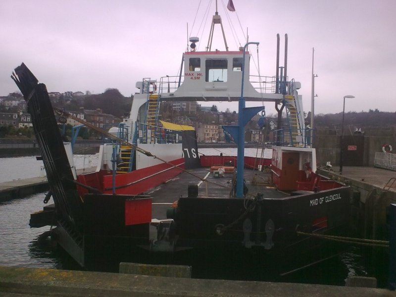 Car deck of MV Maid of Glencoul berthed at Rothesay pier. Now the backup Corran Ferry, she was built in 1976 for Kylesku.